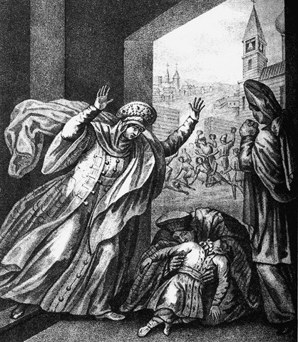 Death of Tsarevich Dmitry